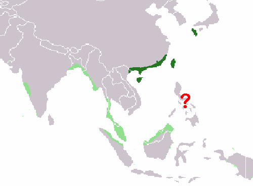 Range of Kandelia genus (Rhizophoraceae) Light green=Kandelia candel Dark green=Kandelia obovata Red question mark refers to doubtful population of Philippines